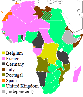 Map showing European claims on Africa in 1914